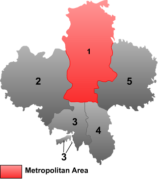 Map of Guyuan in Ningxia province.